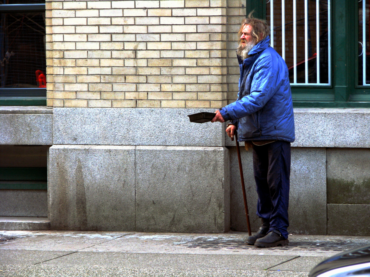 Elderly man seen begging in the ghetto downtown eastside area of Vancouver BC Canada. No one stopped to share even a kind word with the gentleman.